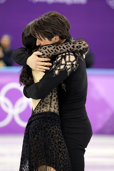 Tessa Virtue and Scott Moir at the 2018 Winter Olympic Games in PyeongChang